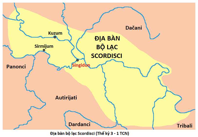 Vietnamese translation from original Serbian